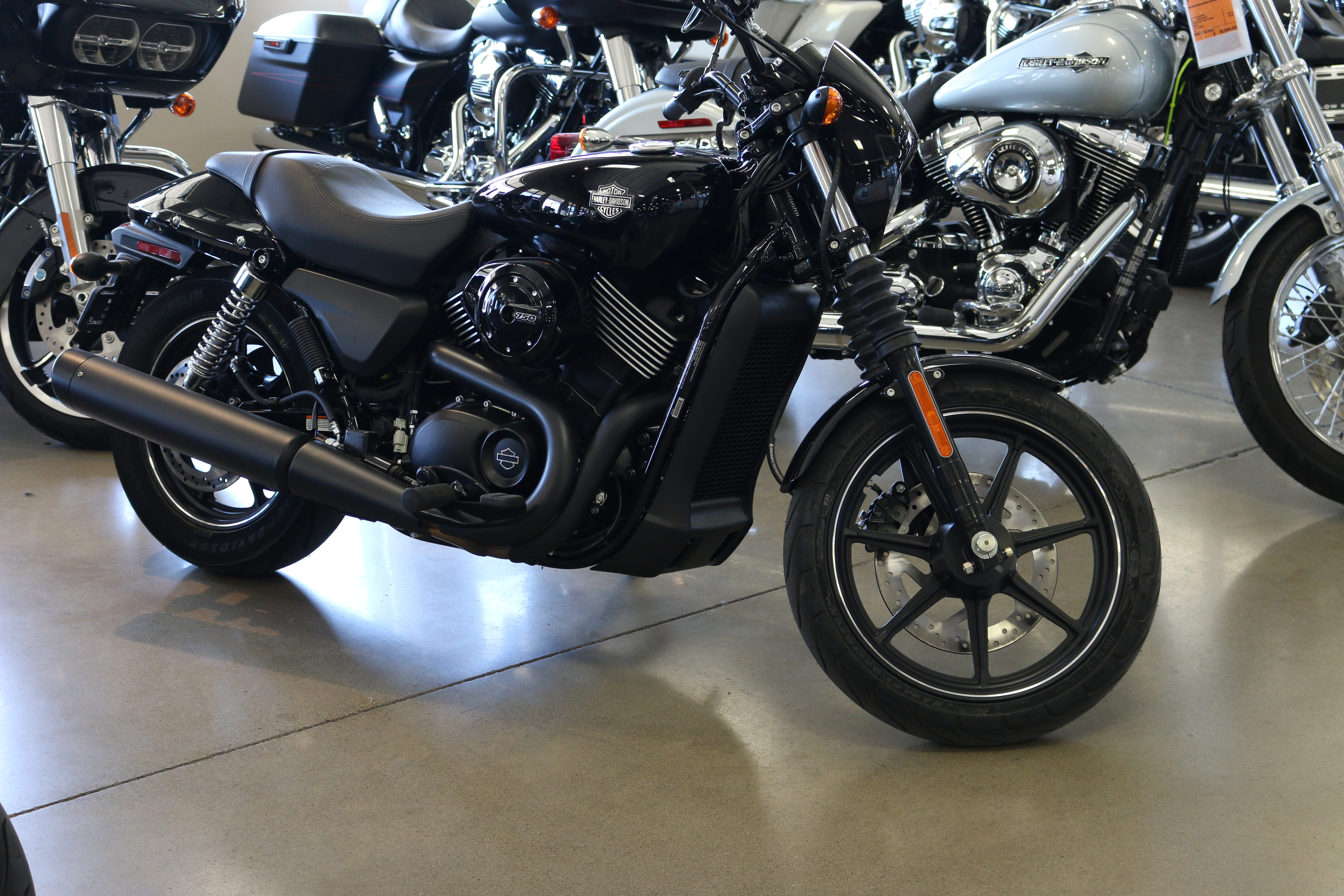 2014 Harley-Davidson Street 750